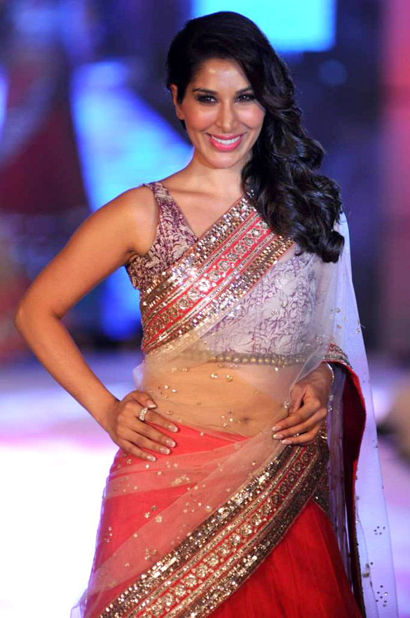 Sophie Choudry walks for Manish Malhotra & Shaina NC's show for CPAA